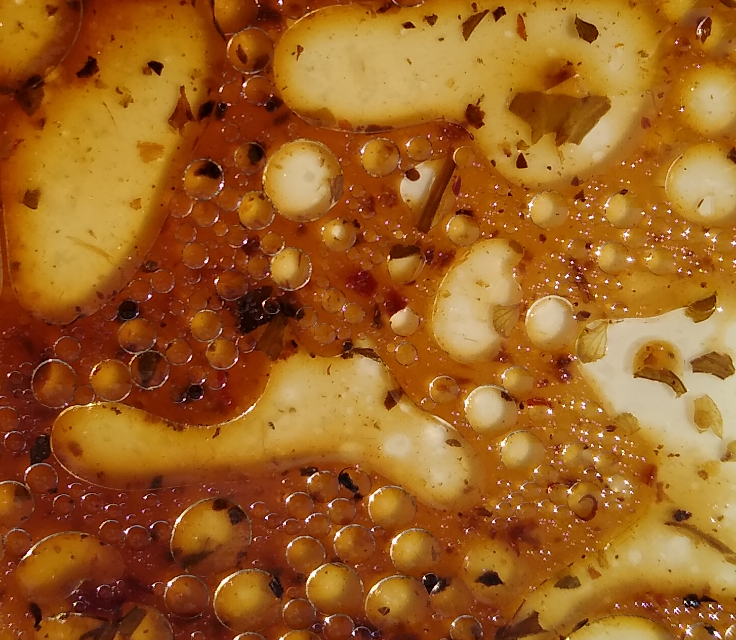 Newman's Own balsamic vinaigrette.